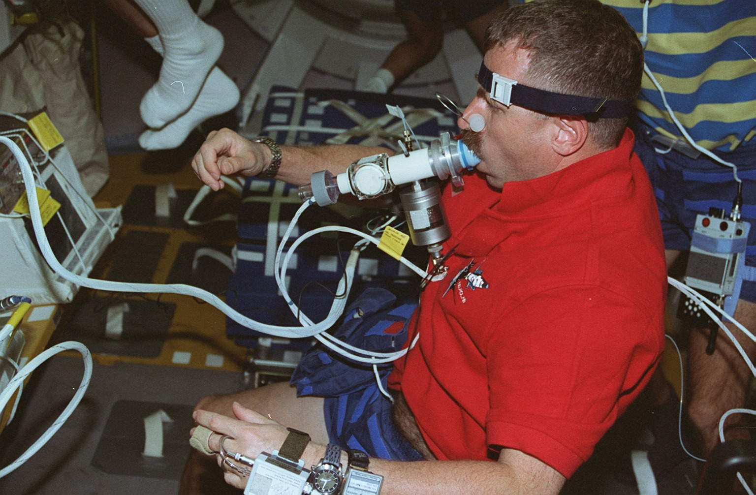 CSA astronaut Dafydd (Dave) Williams undergoing a pulmonary function test during the STS-90 Neurolab mission in April/May 1998.